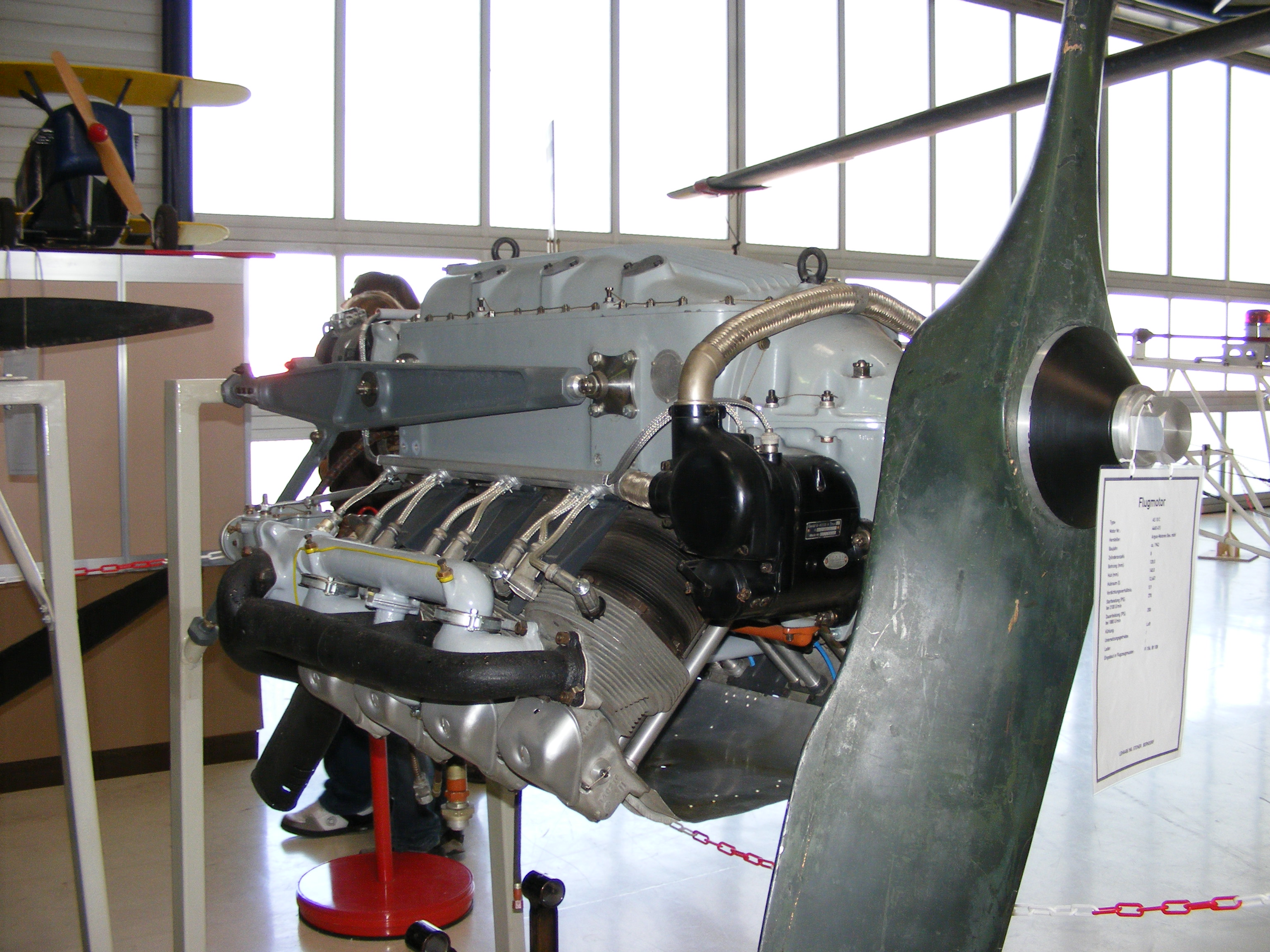 Argus As 10 at aviaticum museum, Austria